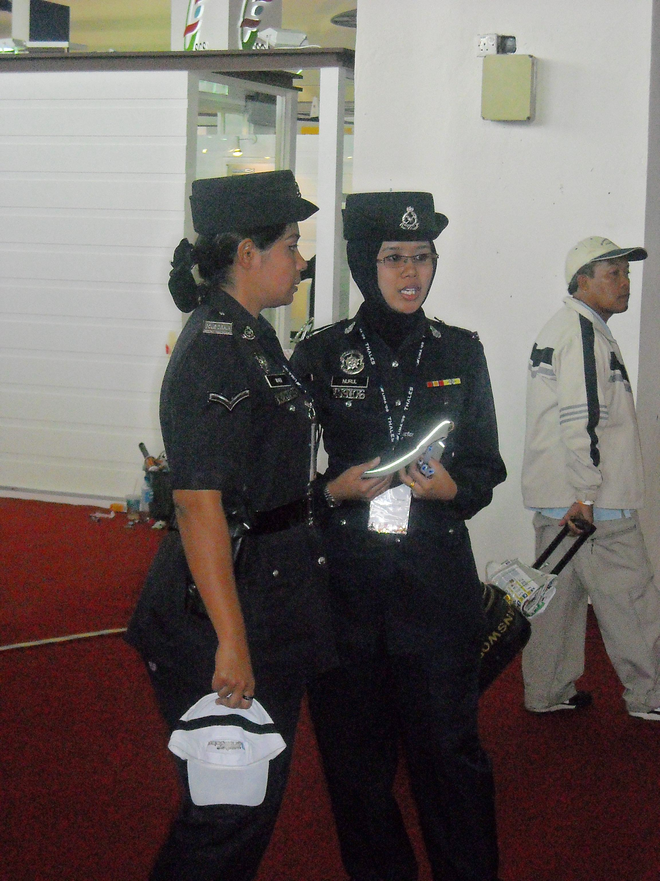 The couple of policewomens on duty at Langkawi International Airport during the LIMA 2009 at Langkawi, Kedah, Malaysia.